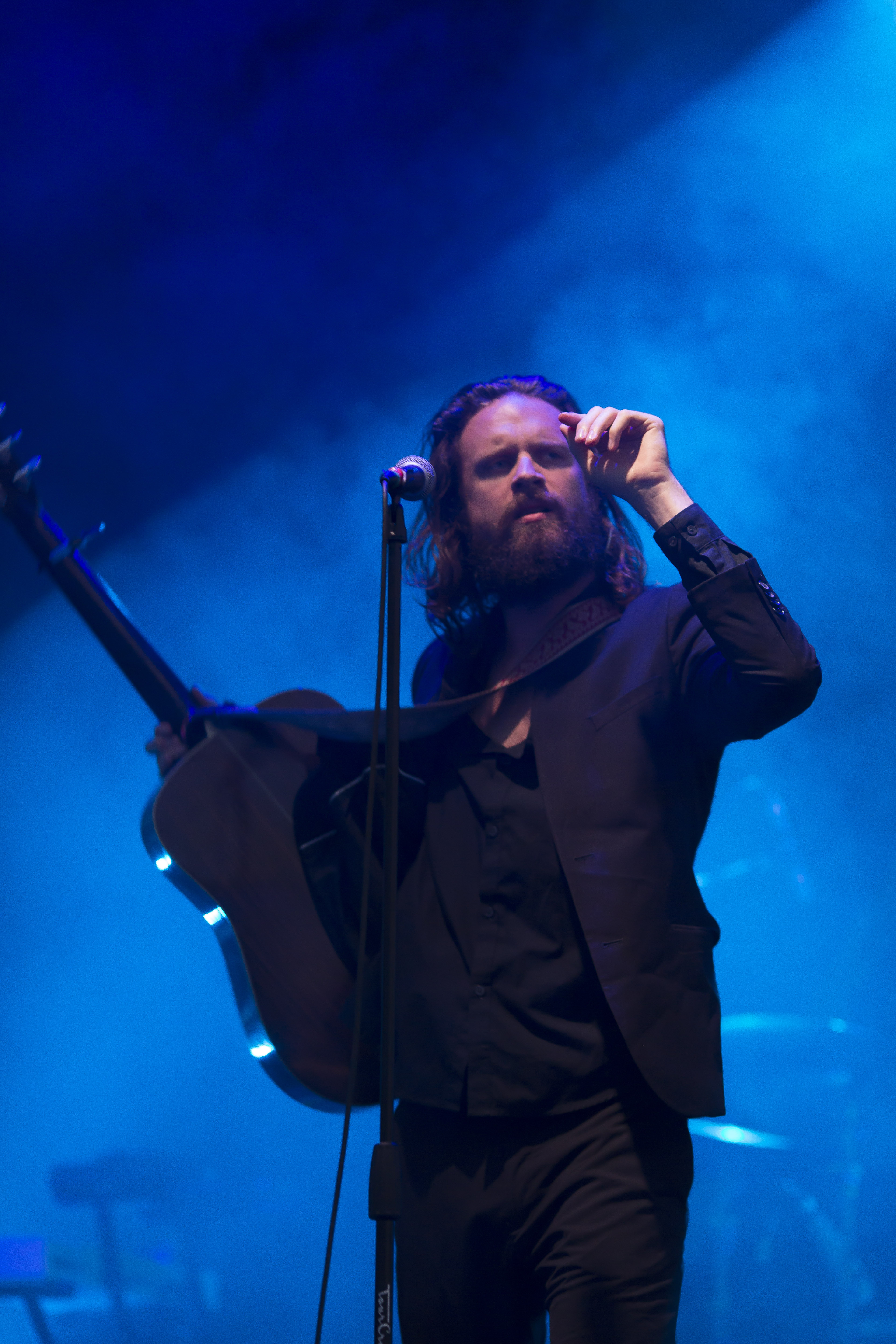 Fairgrounds 2015 - Father John Misty